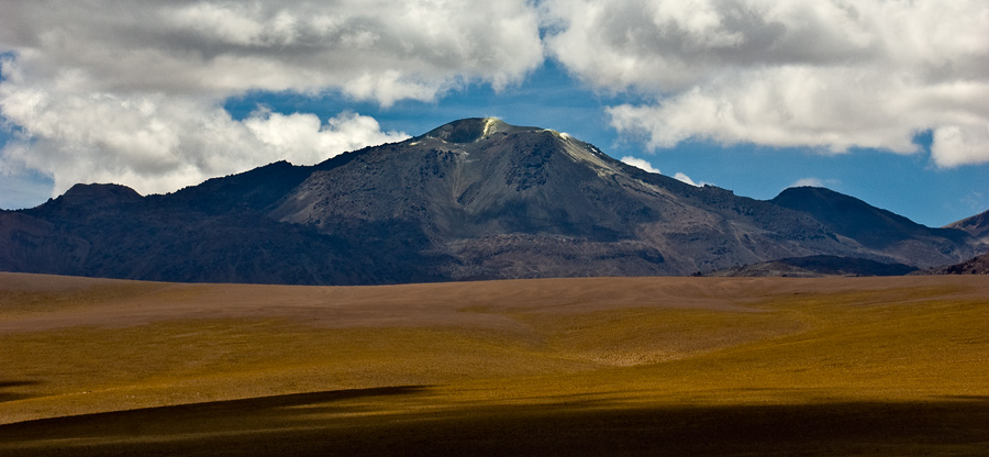 The Putana (Jorqencal, Muchuca) volcano on the Chilean-Bolivian border.